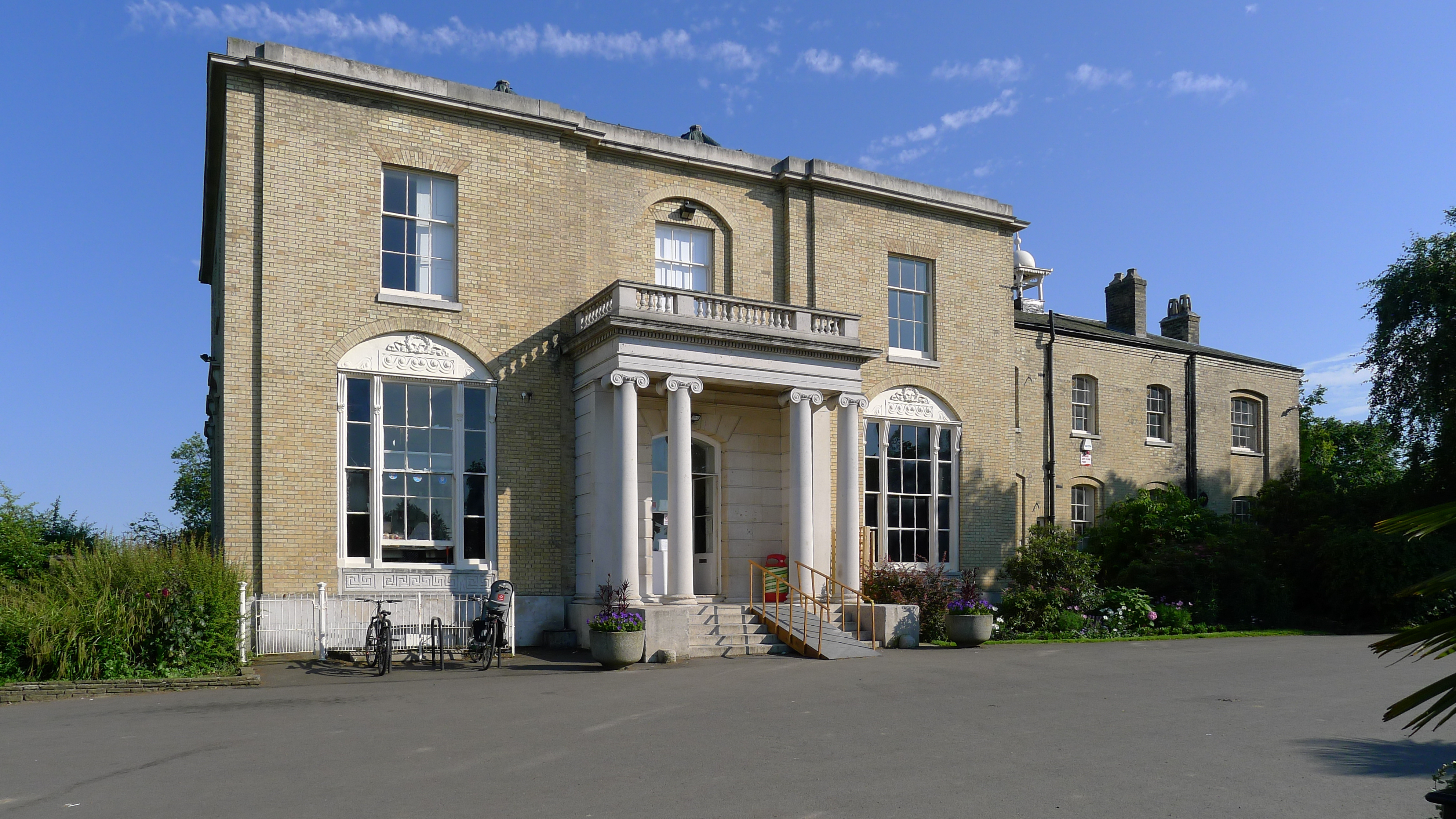 Brockwell Hall is a late Georgian Country House built between 1811-13 for John Blades. It sits on a hill overlooking Brockwell Park, south London.